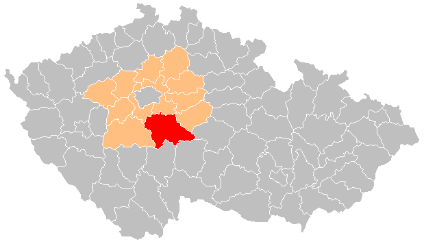 Benešov District within Central Bohemian Region. Current borders of districts since January 1, 2007.